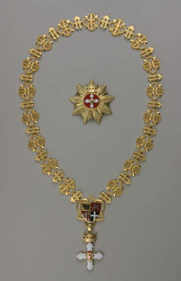 Lithuanian Order of Vytautas Didisis. Highest grade with golden chain and star.